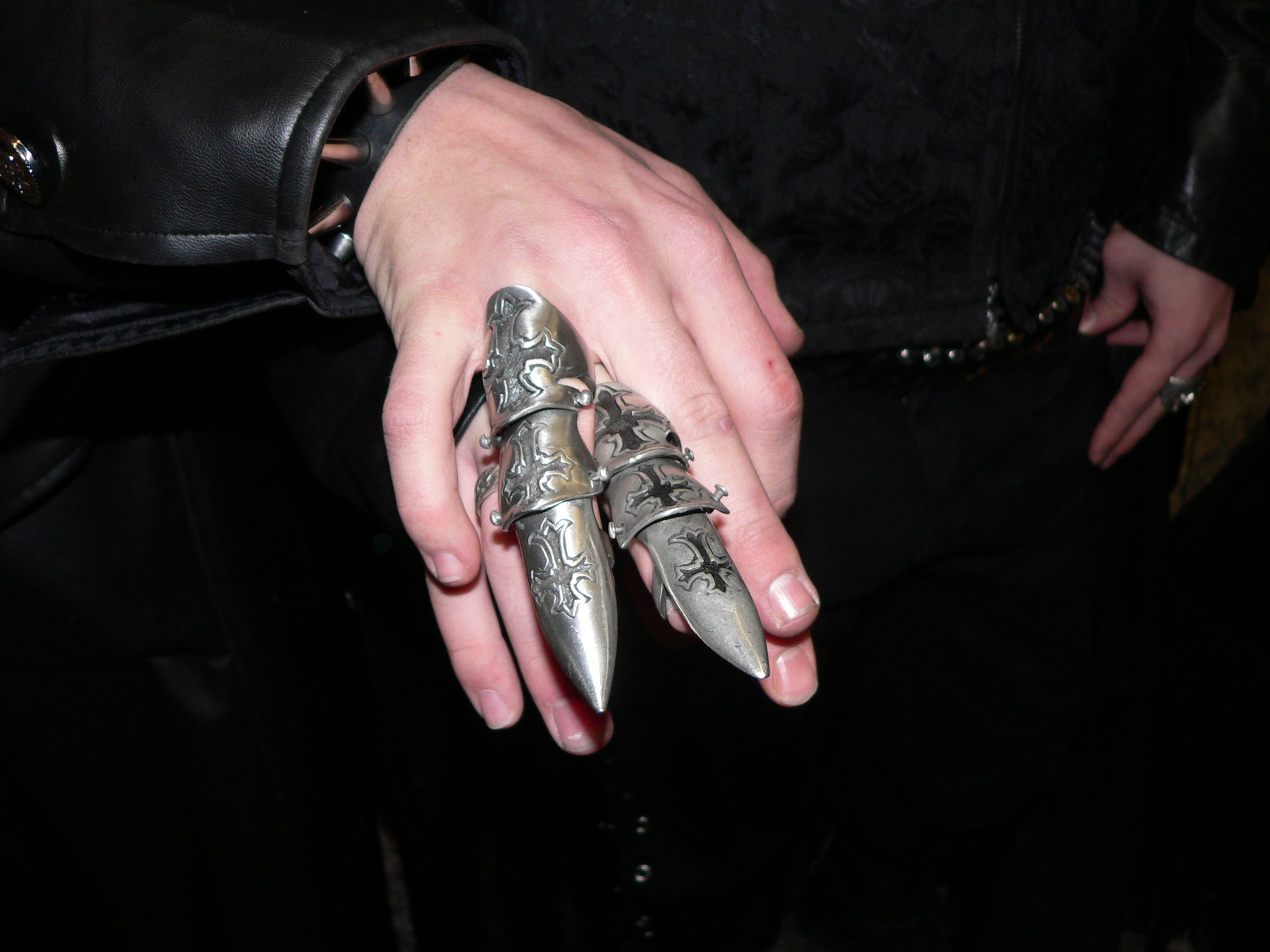 Quite sympathetic Goth people met in Basel train station